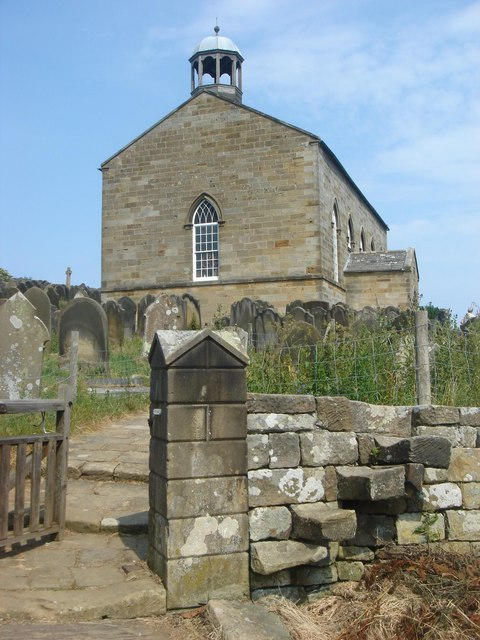 St. Stephens church, Fylingdales. unused now, but maintained as a church for public viewing. It has a three decker pulpit and all the original box pews.